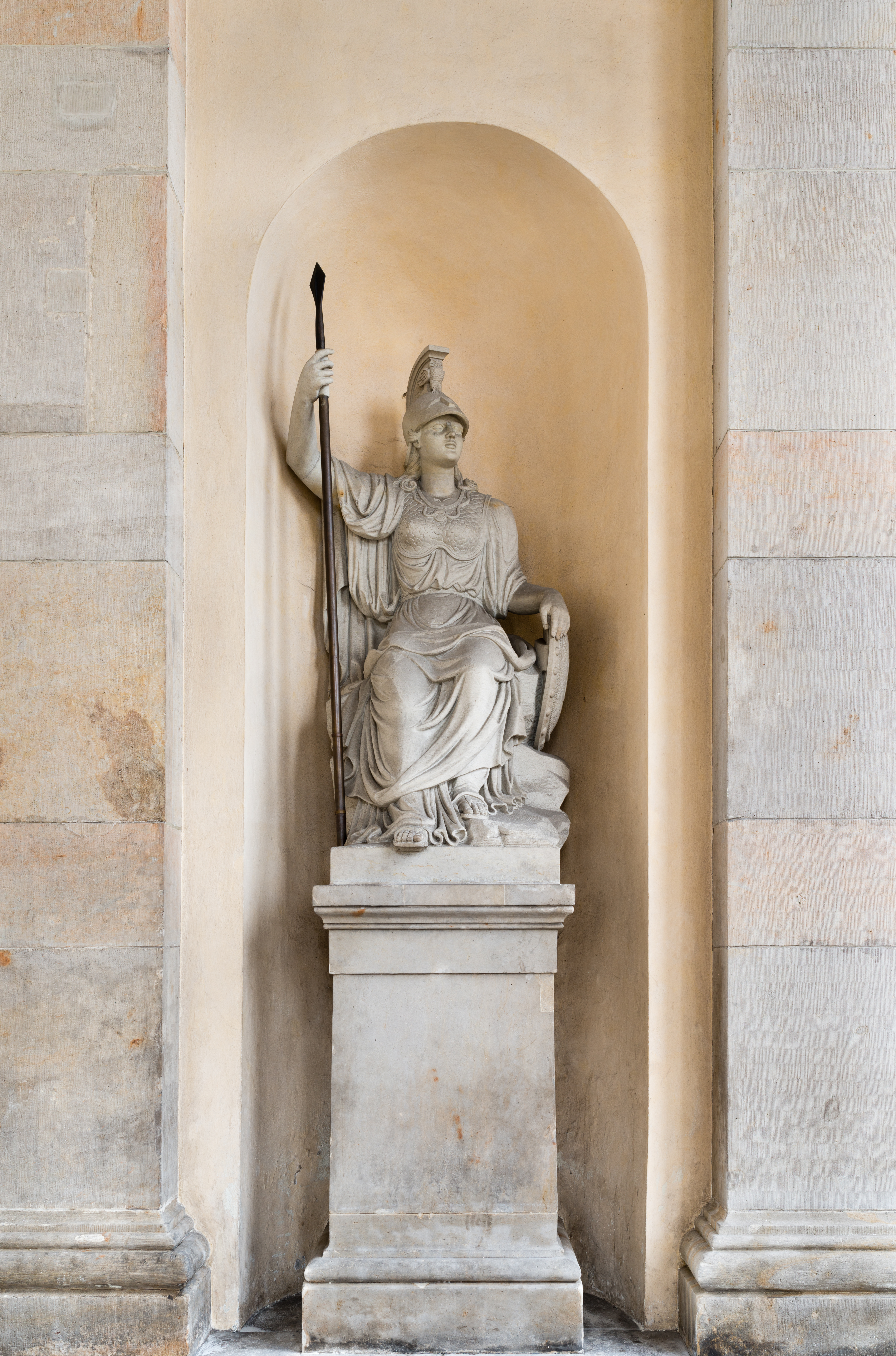 Minerva Statue, Brandenburg Gate, Berlin, Germany.